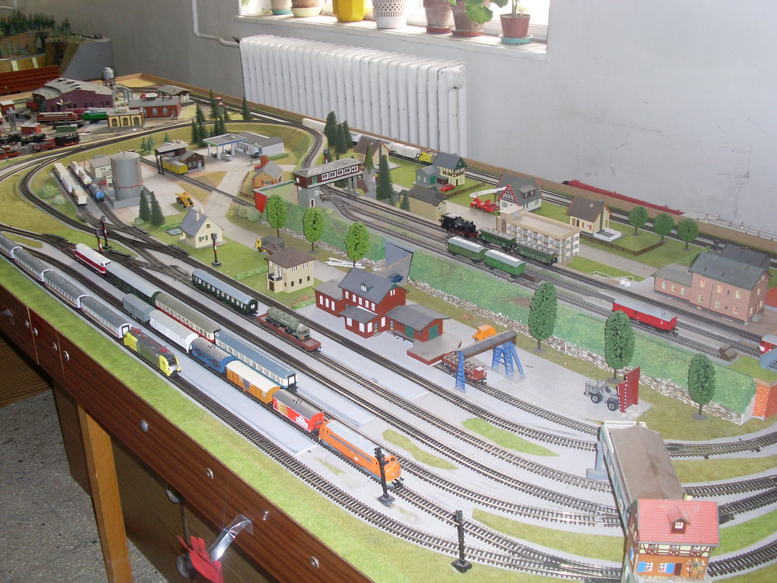 Vasúttörténeti Park